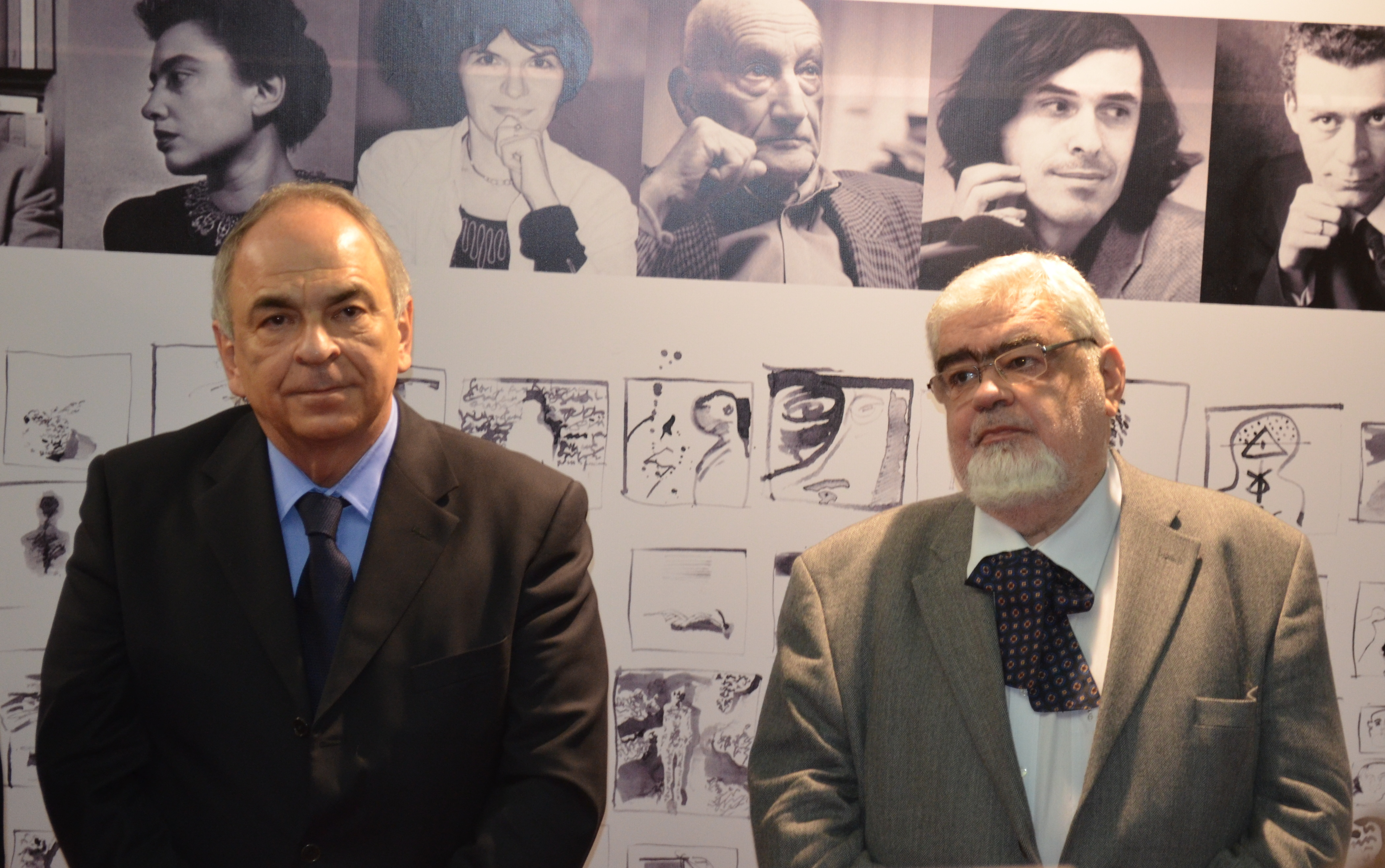 Gabriel Liiceanu and Andrei Pleșu, at Gaudeamus Book Fair 2011